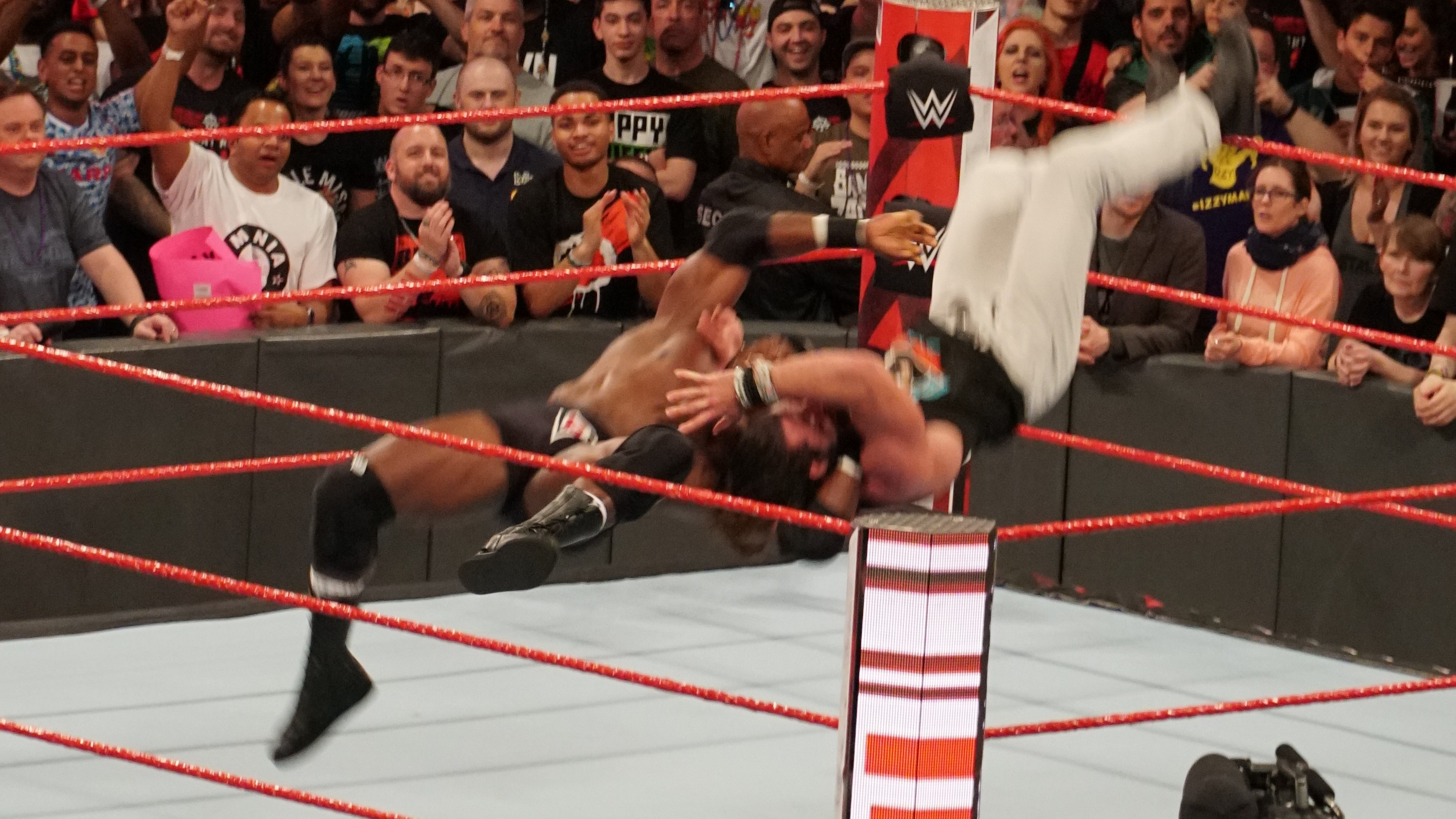 Lashley performing a delayed vertical suplex on Elias.